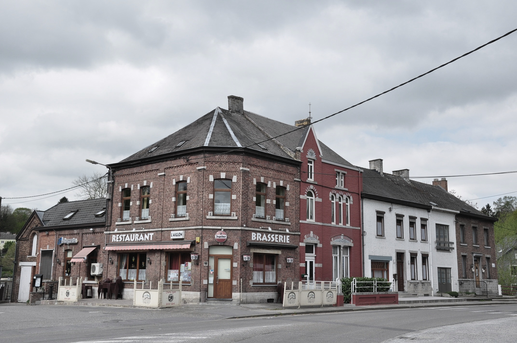 Restaurant L'Aiglon (Young Eagle) on the Rue par delà l'Eau in Silenrieux (municipality Cerfontaine, Namur province, Belgium).